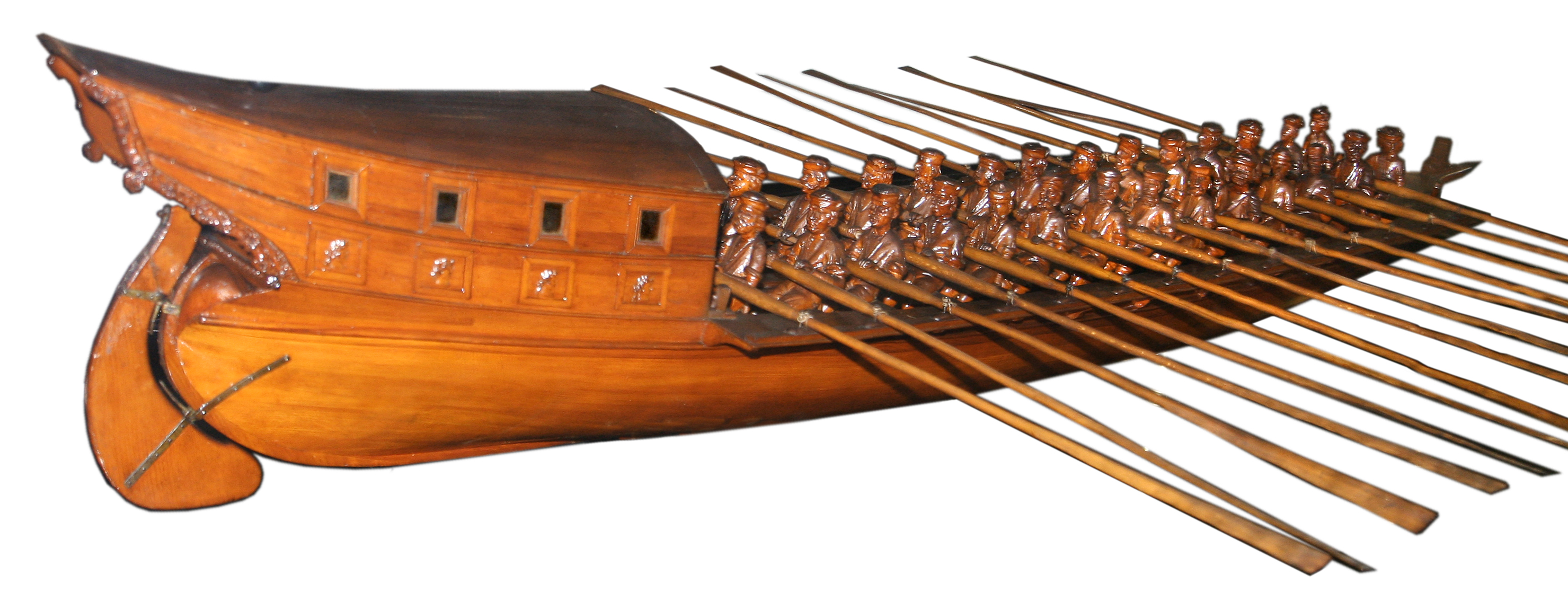 Venice, Navy Museum (Museo Storico Navale di Venezia), galley with rowing slaves, wooden model